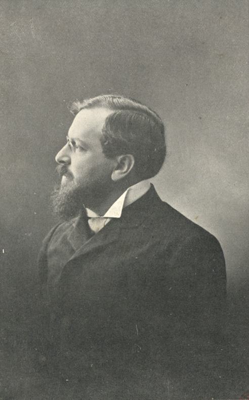 Photograph of Portuguese Republican politician Alfredo de Magalhães, included in the Album Republicano, published in 1908.